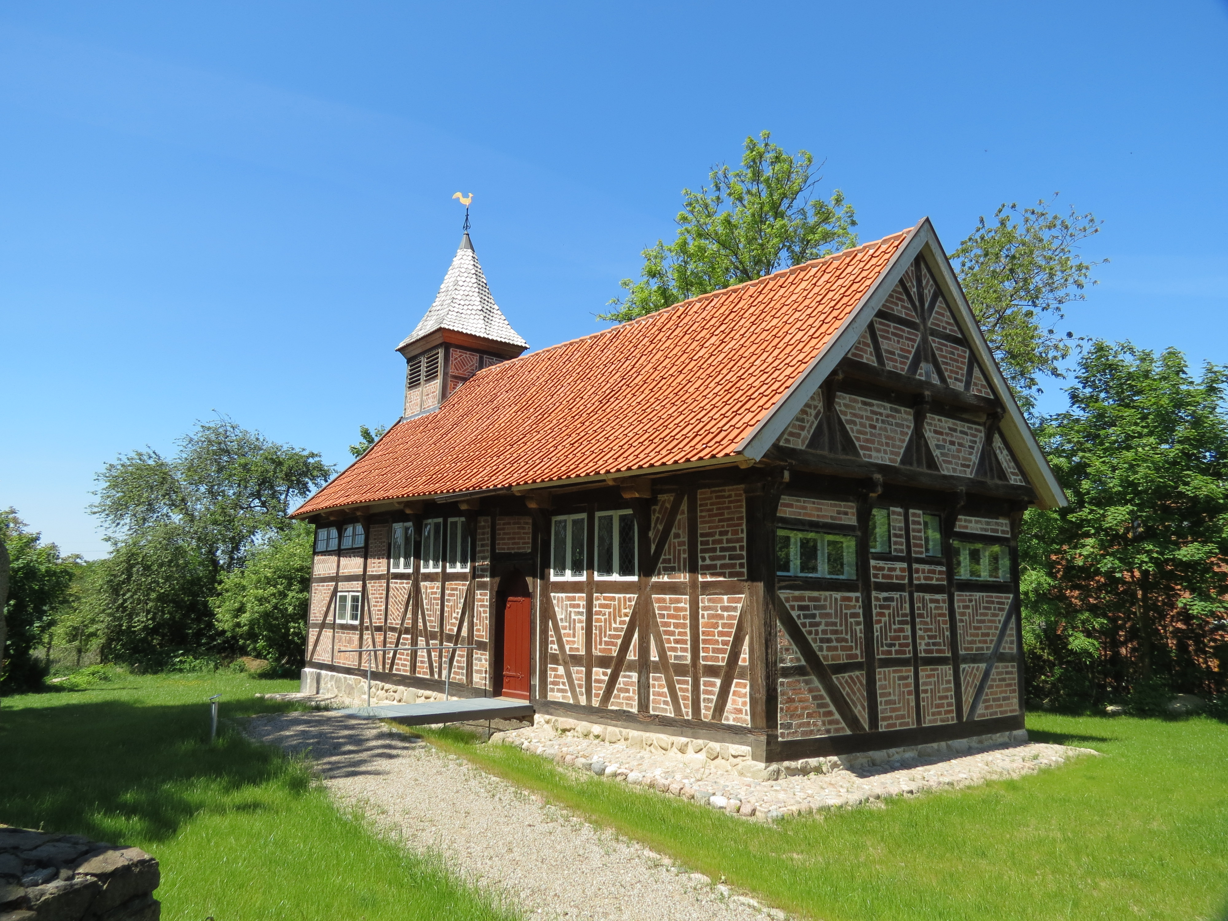 Fuhlenhagen, Kreis Herzogtum-Lauenburg, Schleswig-Holstein, Germany